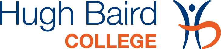 Hugh Baird College logo